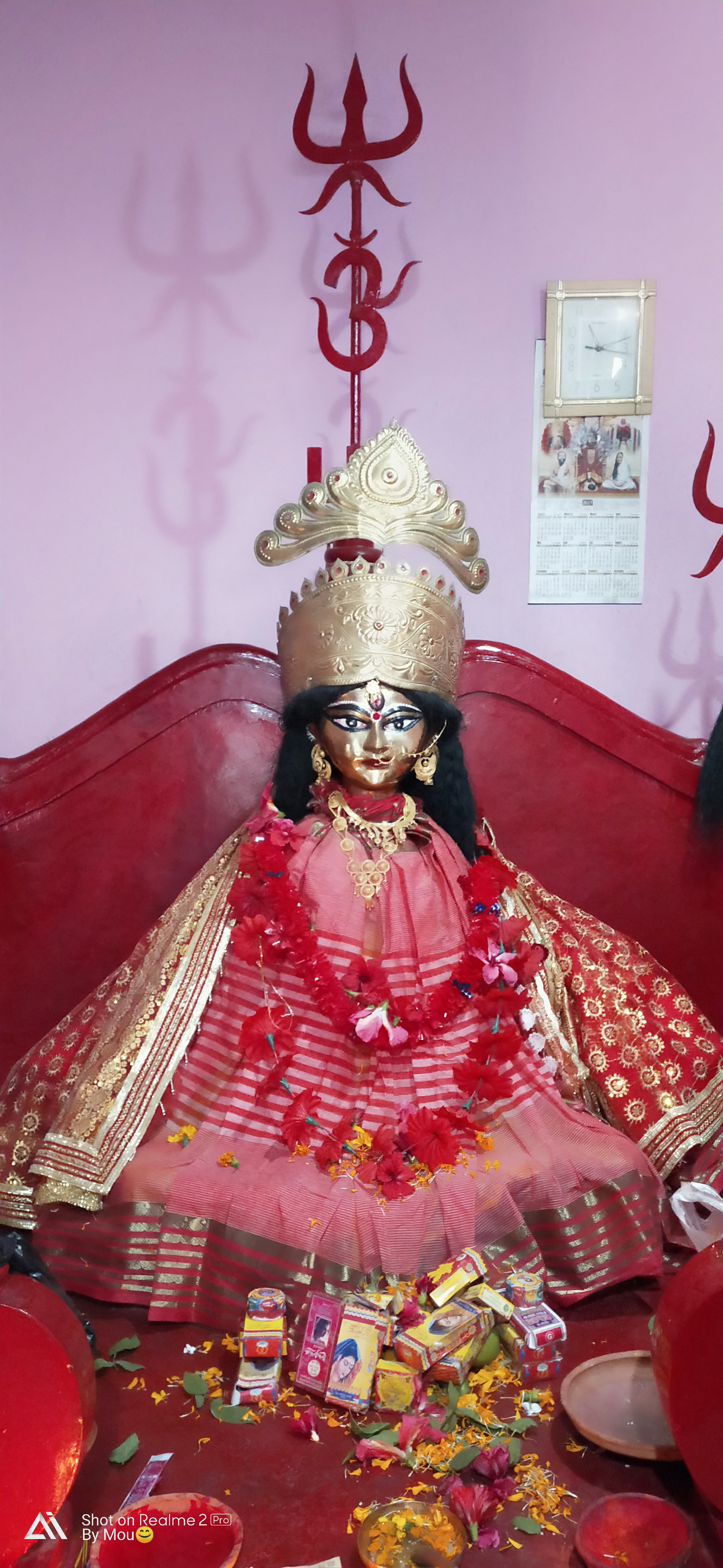 Idol of Kiriteswari Mata